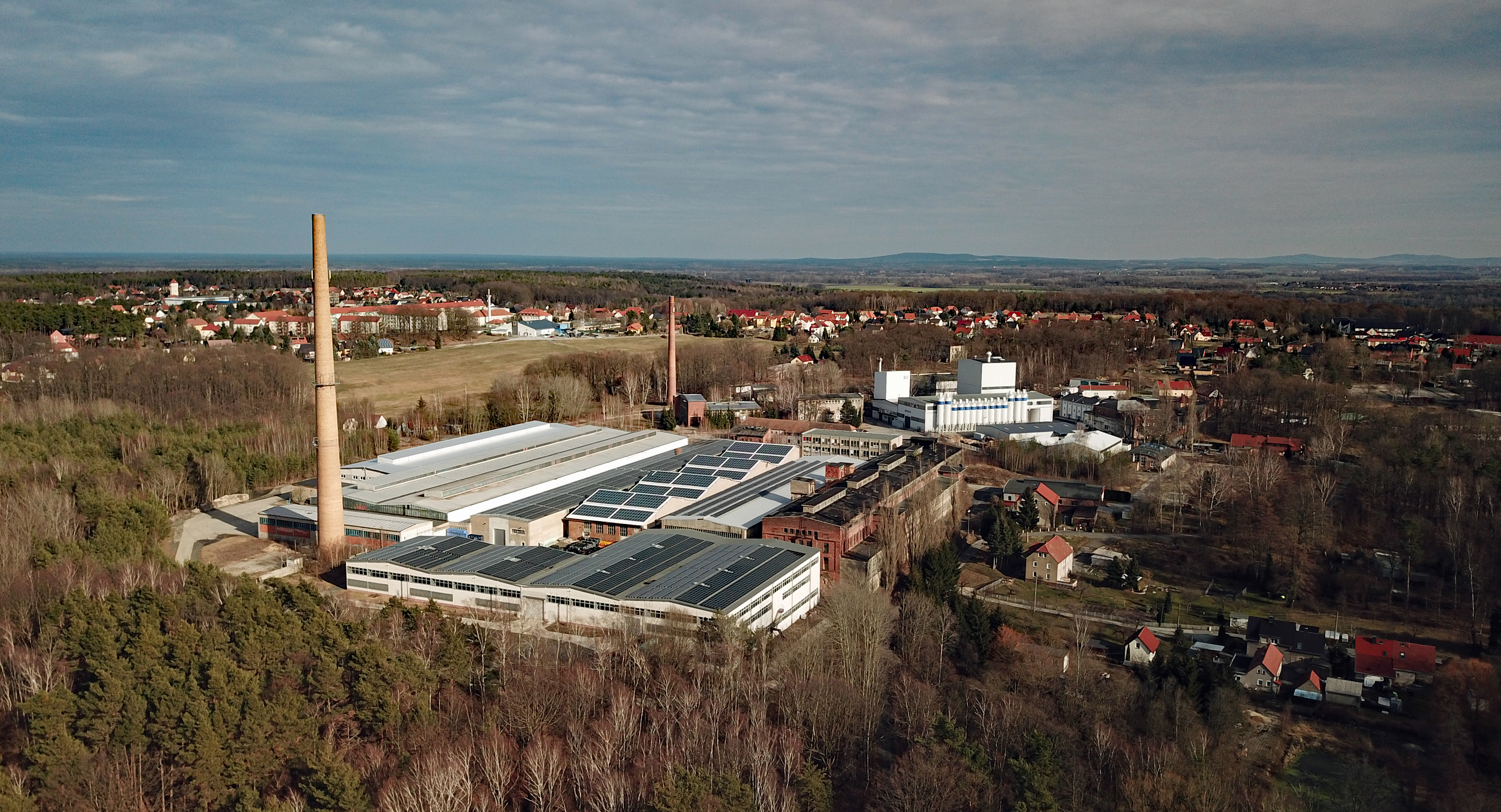 Margarethenhütte, Großdubrau, Saxony, Germany Hornjoserbsce: Powětrowy wobraz Margarećineje hěty pola Wulkeje Dubrawy